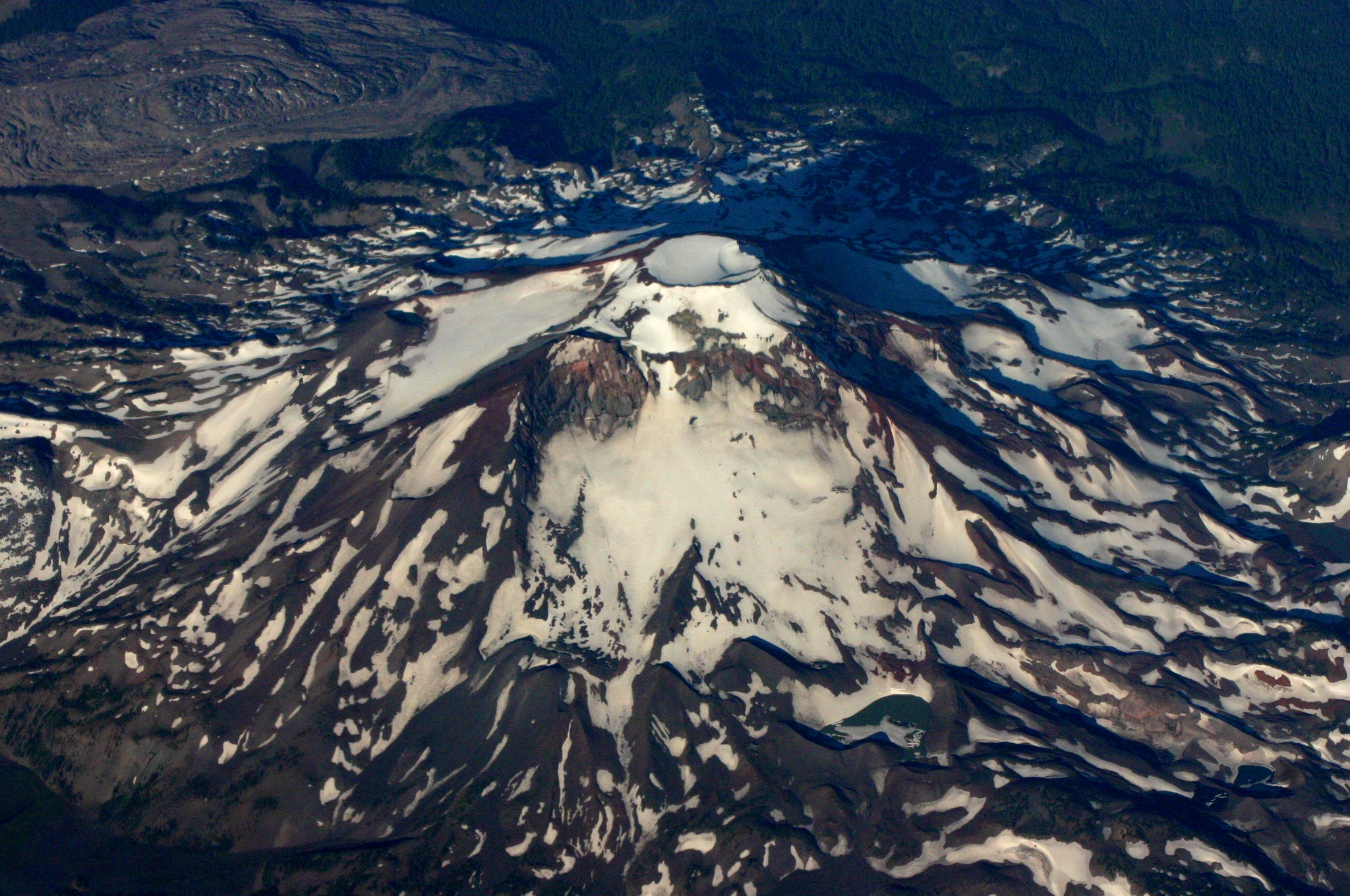 Aerial photo of South Sister, Oregon (part of Three Sisters), showing the crater at its peak. The photograph was taken from the northeast direction.